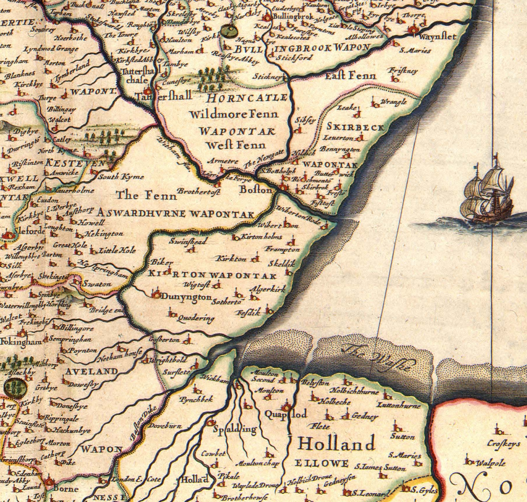 In 1645, Joan Blaeu (1598-1673) successfully published an atlas of England. Blaeu based this atlas on the Theatre of the Empire of Great Britaine published by his English colleague John Speed (1552-1629) in 1611. Infected by this success, Blaeus neighbour, Jan Janssonius (1588-1664), copied the complete atlas. Janssonius published this pirate issue in 1646. This map of Lincolnshire has been taken from Janssonius atlas. This excerpt highlights The Fens area.